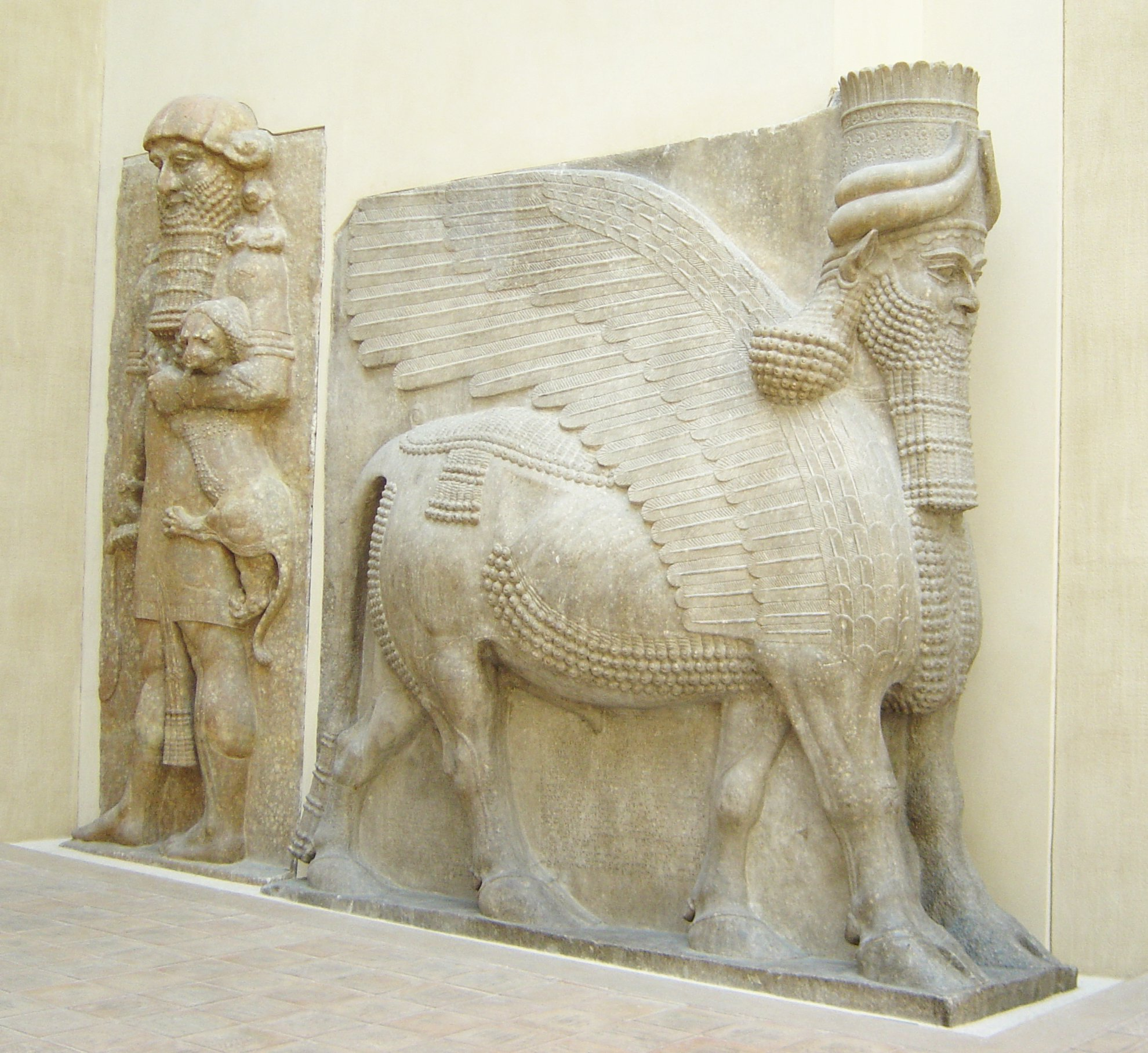 One of the gates of Dur-Sharukin, Assyria, Louvre.